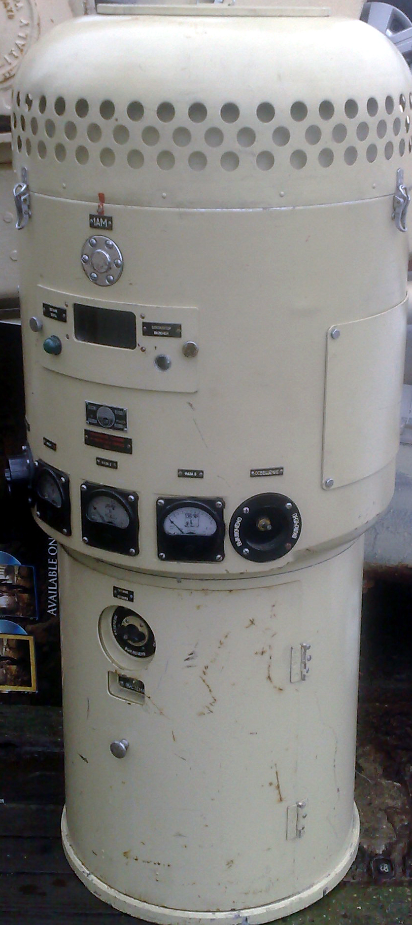 A gyro compass main unit